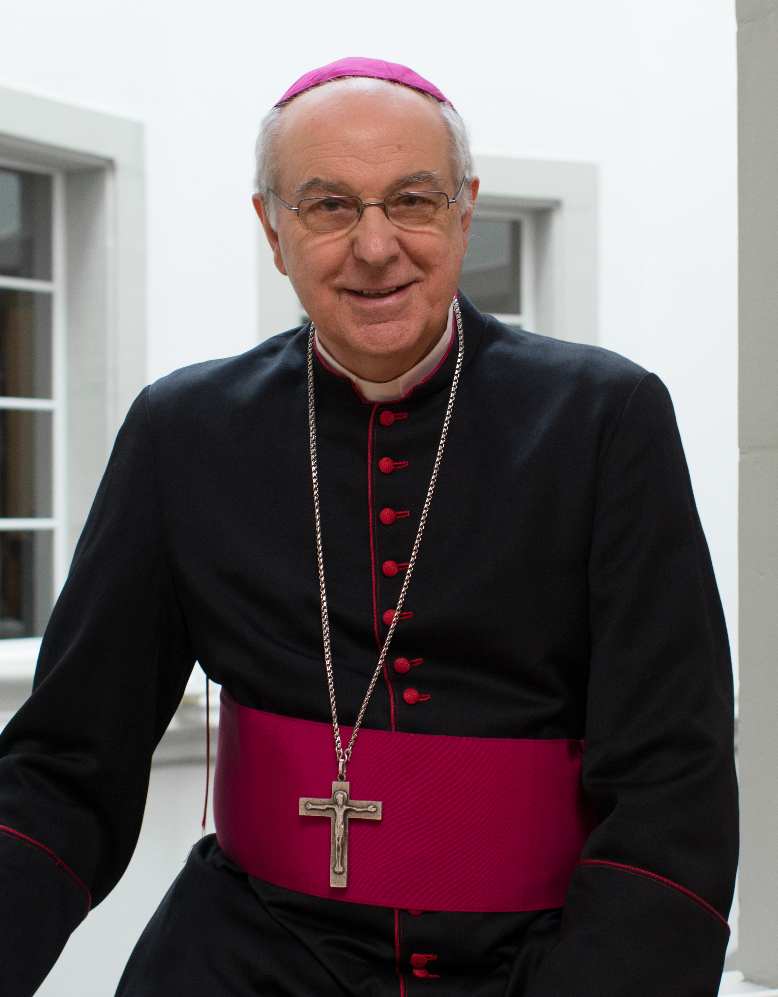 Portrait of Pierre Farine.